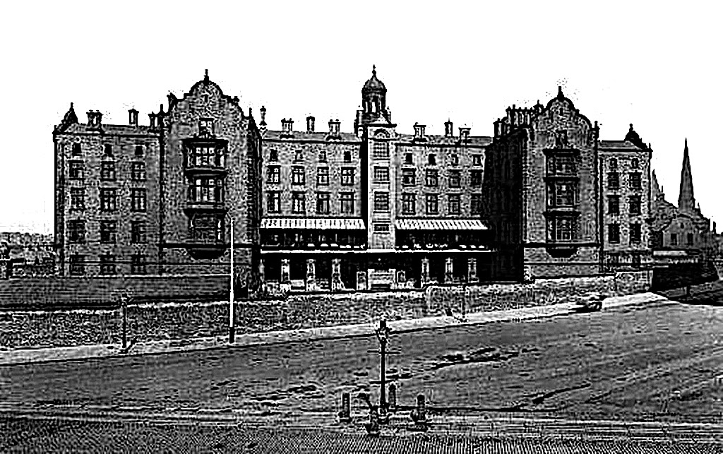 Old photograph of Brownlow Hill Workhouse Infirmary. Henry Francis Lockwood and Thomas Allom designed extensions to this building in 1842-1843.